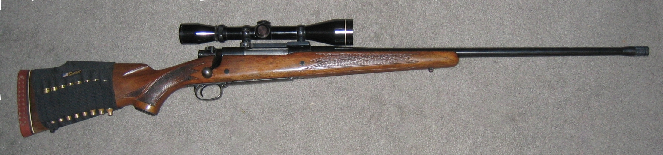 Photo taken by submitter.